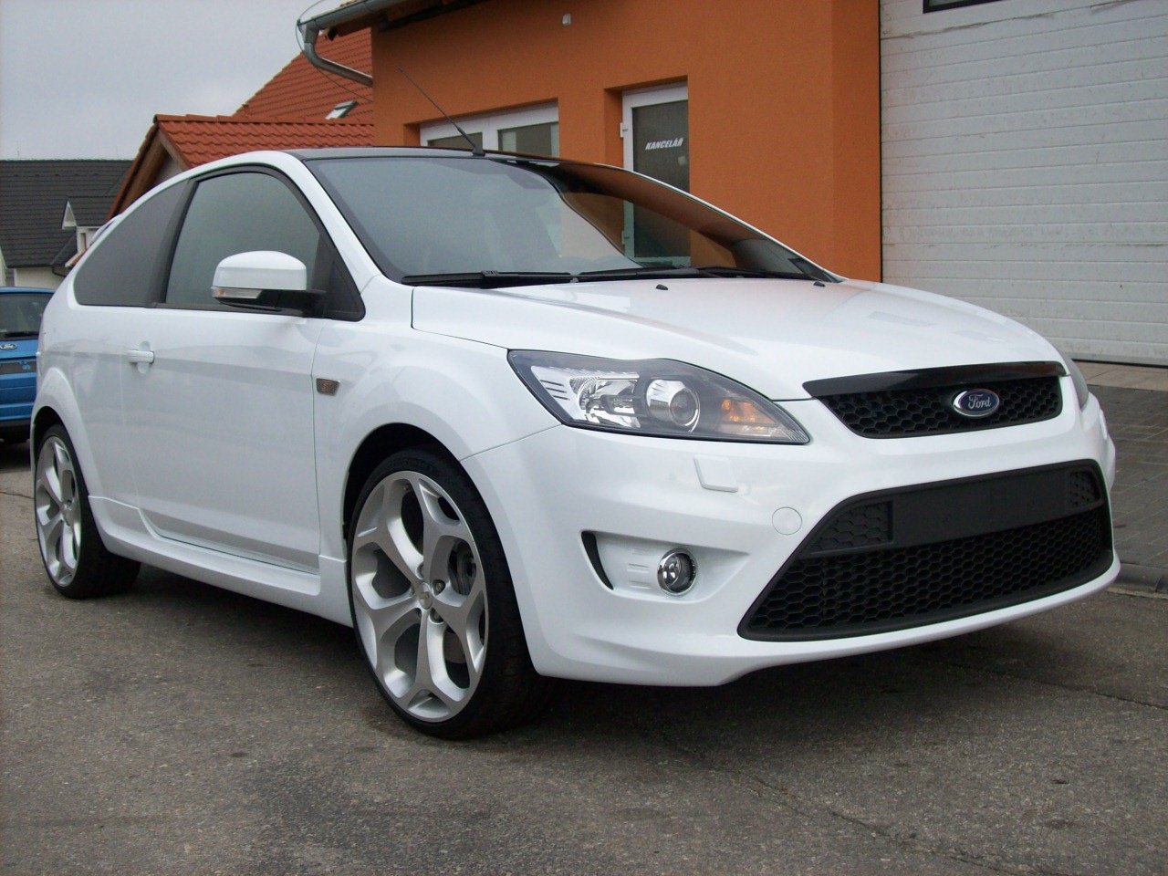 ford focus ST 2008